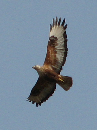 Long-legged Buzzard (Buteo rufinus) in breeding period in Ukraine